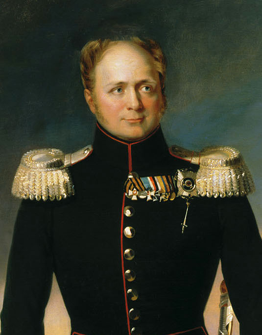 Czar Alexander I of Russia (1826, Peterhof)